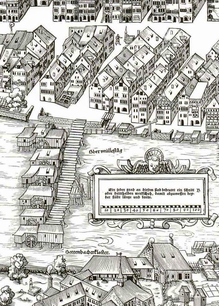 View of the city of Zürich on a xylography by Josua Murer, 1576. The original headline can be roughly translated into "The ancient widely known city Zürich's design and positioning, as its essense/character is projected and build at this time by Josen Murer, and printed by Christoffel Froschauer in 1576 in honour of the fatherland."